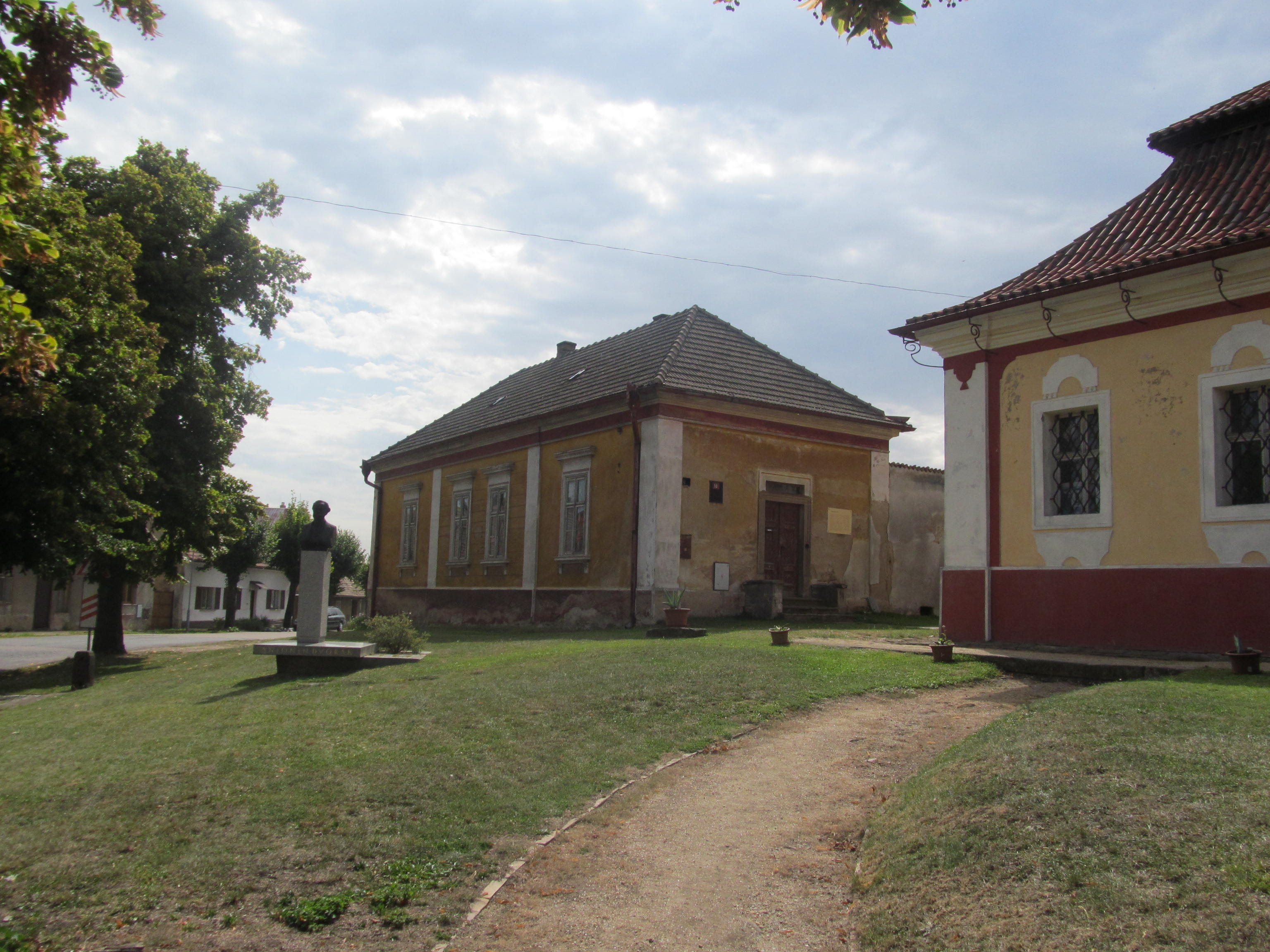 Zlonice No 19, called "Varhanovna", part of Antonín Dvořák´s monument in Zlonice